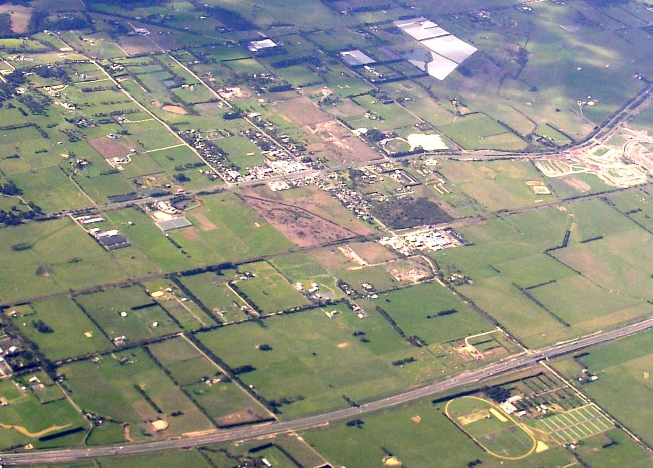 Aerial photo of Officer Victoria Australia